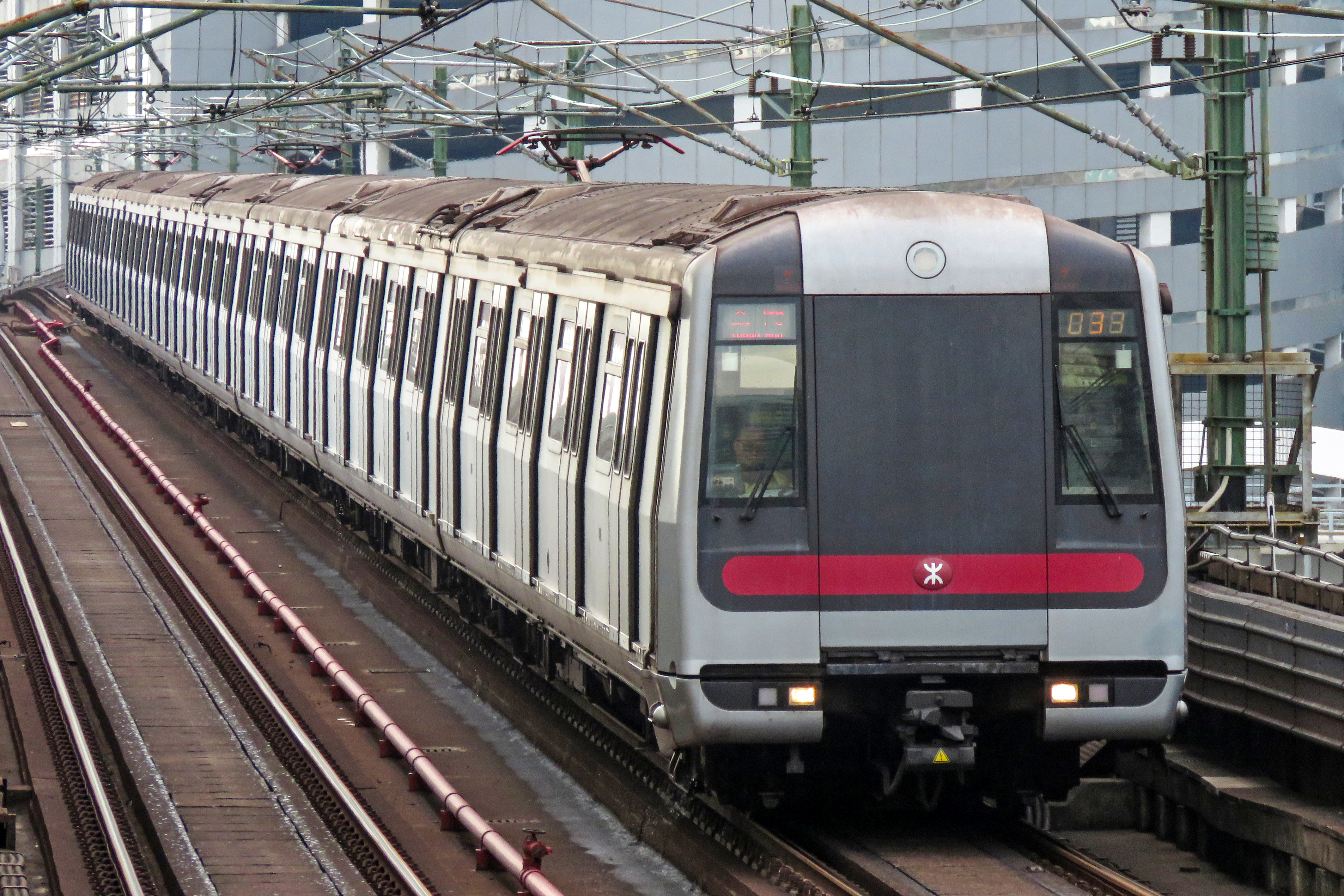 Salute to the M-trains!